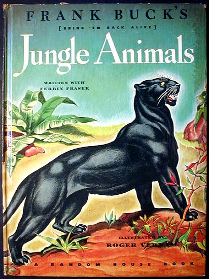 Cover of the original book "Jungle Animals" 1945 Source: personal collection Jungle Animals (book) The image is only used once and is rendered in low resolution to avoid piracy. The image has been published outside Wikipedia. The image meets general Wikipedia content requirements and is encyclopedic. The image meets Wikipedia's media-specific policy. The image is used in the article wiki-linked in the section title. The image is significant in identifying the subject of the article, which is the book itself. The image is used in the article namespace. The image has a brief description that identifies the image.